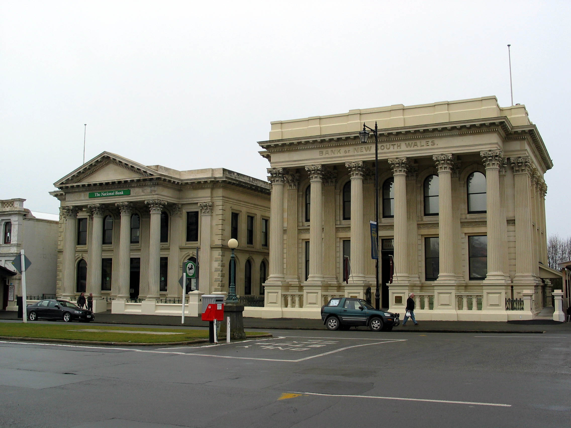 This is the National Bank (left) and the former Bank of New South Wales (also known as the Forrester Gallery, right), in Oamaru, New Zealand. Both buildings are category I historic places on the New Zealand Historic Places Trust register, numbers: 363 and 355.